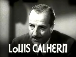 Cropped screenshot of Louis Calhern from the trailer for the film Woman Wanted